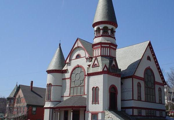 Ludlow, VT architecture. This is the Ludlow Baptist Church at 11 High Street